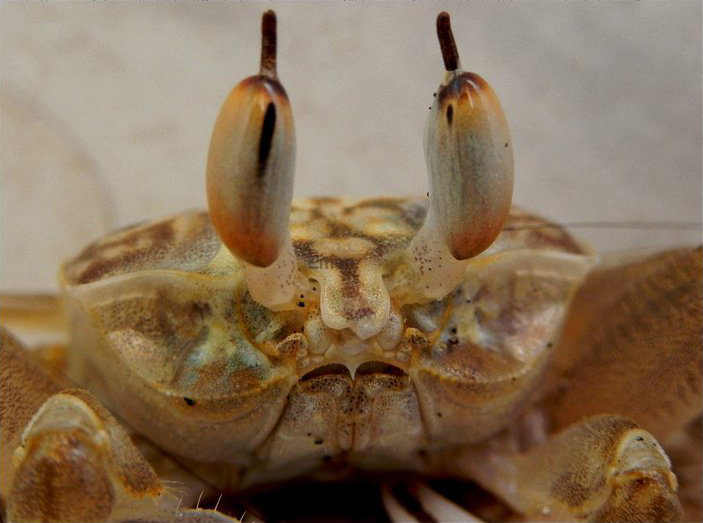 Ghost Crab close up